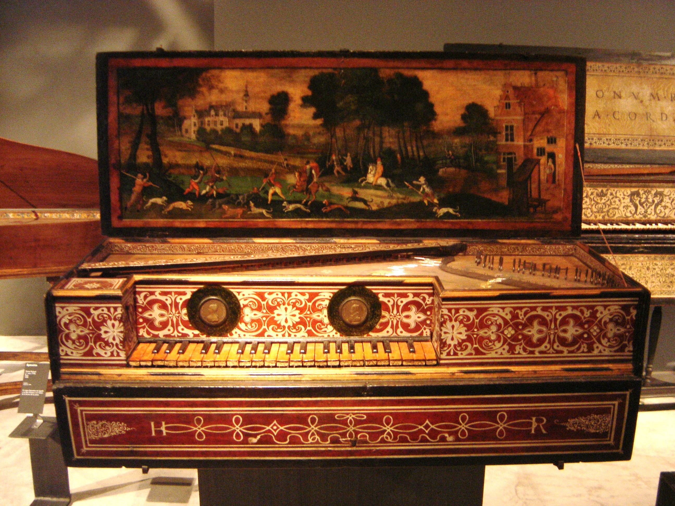 Virginal “ à la quinte” made by Hans Ruckers 1583 - Paris Musée de la Musique. (Object nr. E.986.1.2). The instrument sounds a fifth higher than standard pitch, and it is the only virginal with this pitch, that has been preserved.